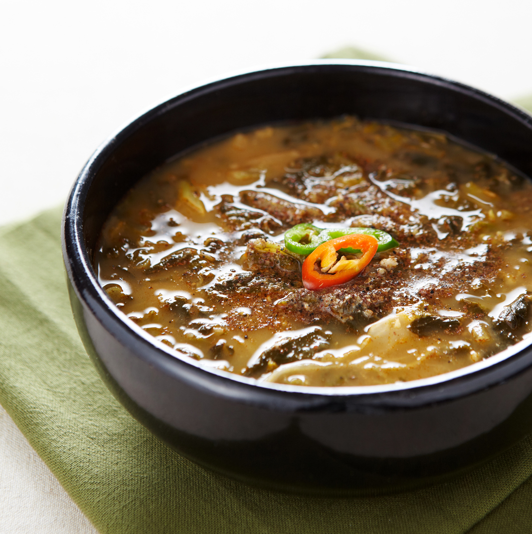 Chueo-tang (loach soup)